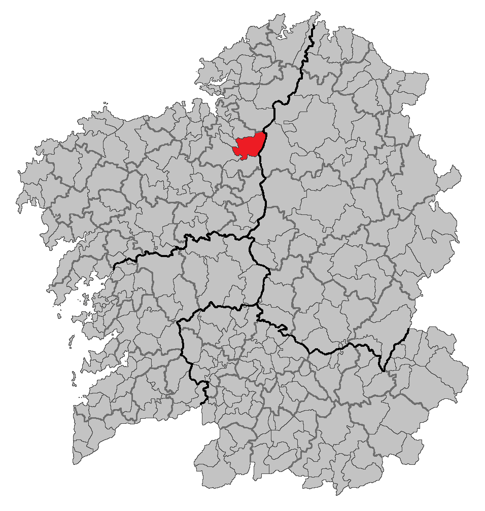 Location map of Aranga, A Coruña, Galicia